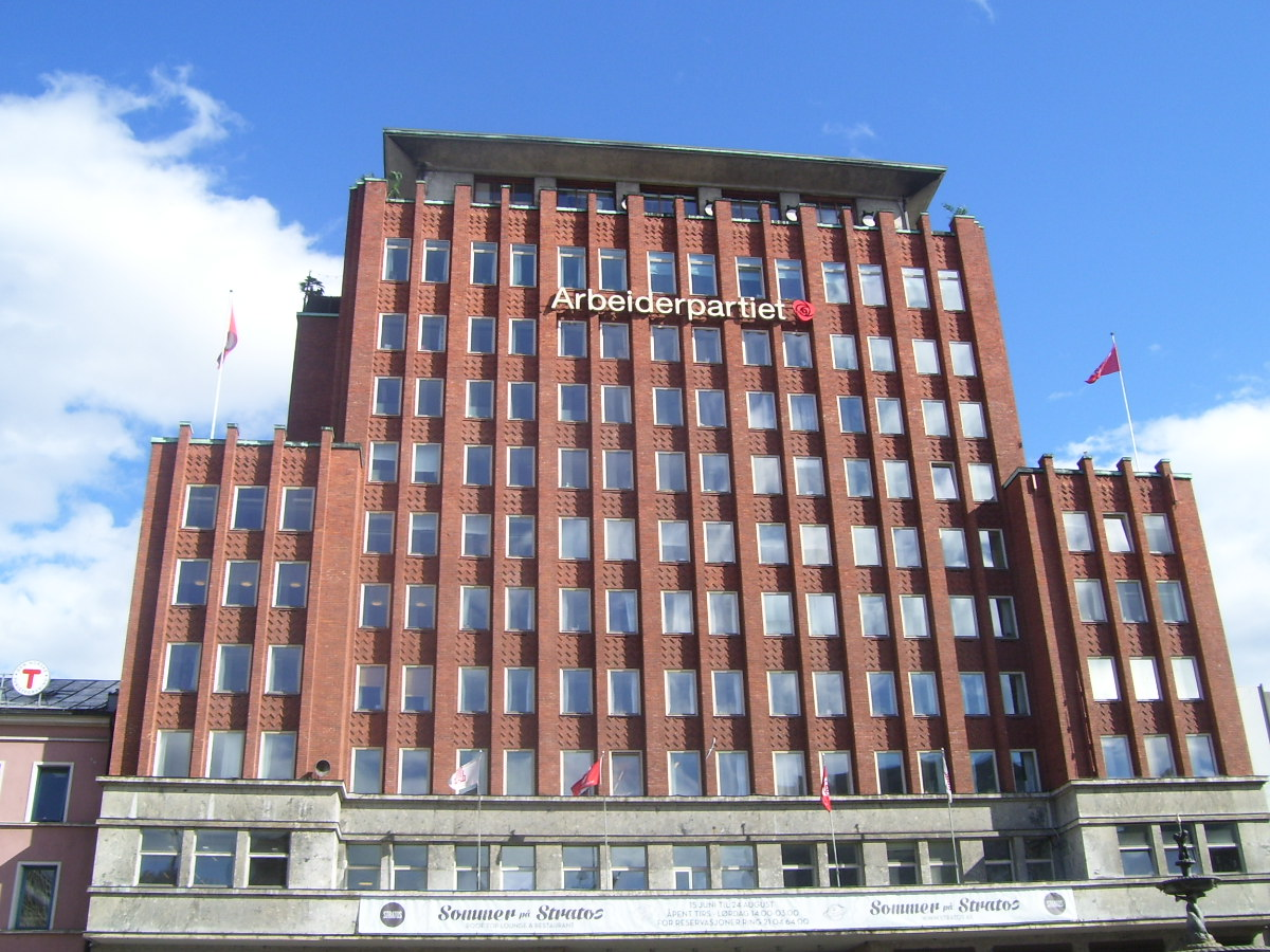 Seat of the labour party of Norway.